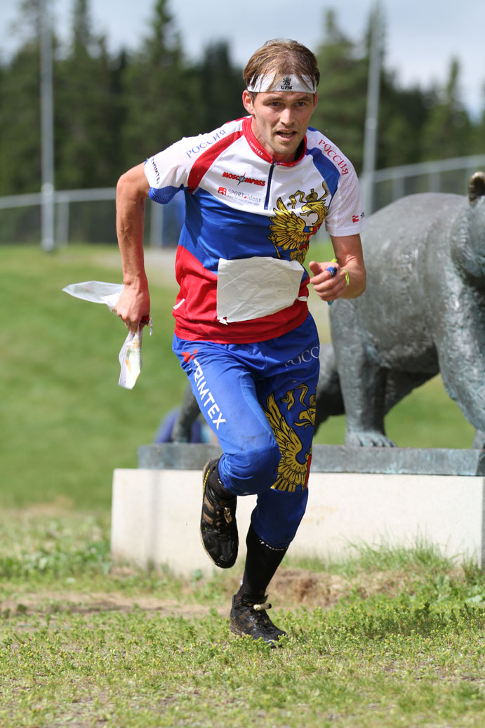 Relay at World Orienteering Championships2010